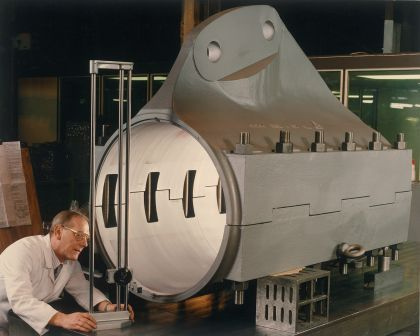 A 12-bolt, 1,800mm cable band assembly, for the Jiangyin Bridge in China, undergoing dimensional inspection prior to packing.